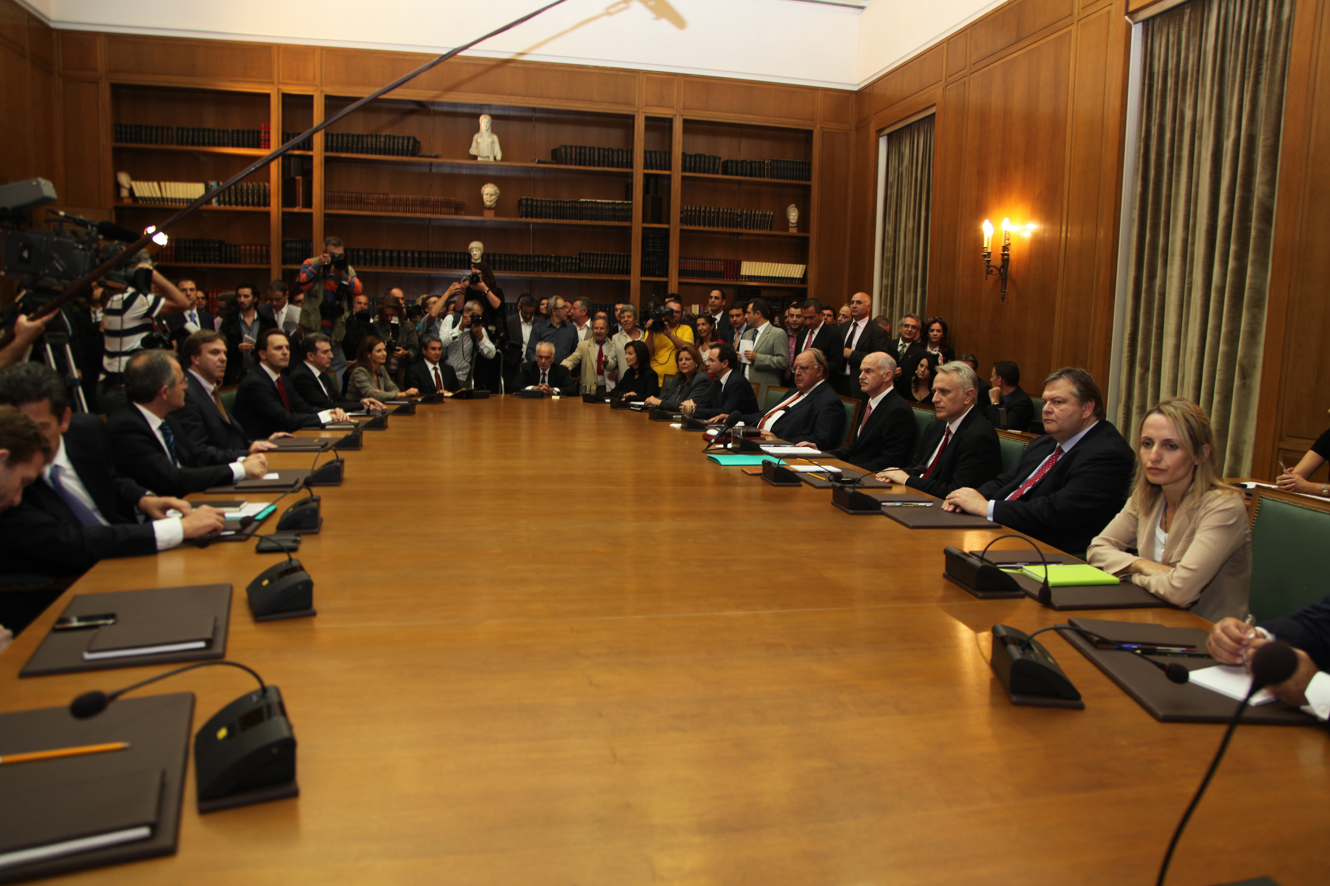 First Papandreou Cabinet meeting at the Ministerial Council Room of the Hellenic Parliament building.